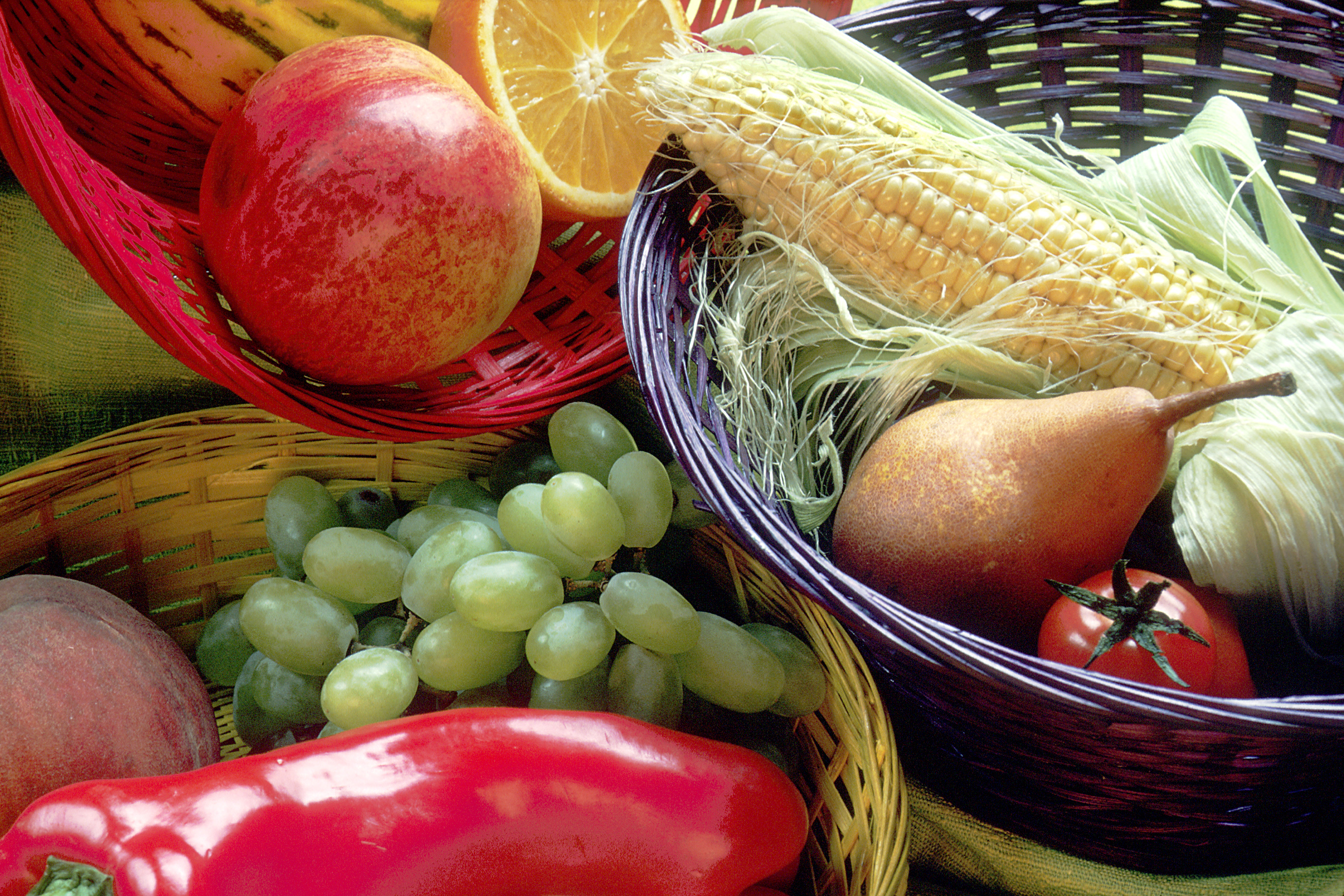 Title Fruit and Vegetables Basket Description There are three different colored woven baskets in a tight frame containing various fruits and vegetables such as grapes, a peach, an orange, ear of corn, red pepper, tomato and a pear. Topics/Categories Food and Drink Type Color, Photo Source National Cancer Institute